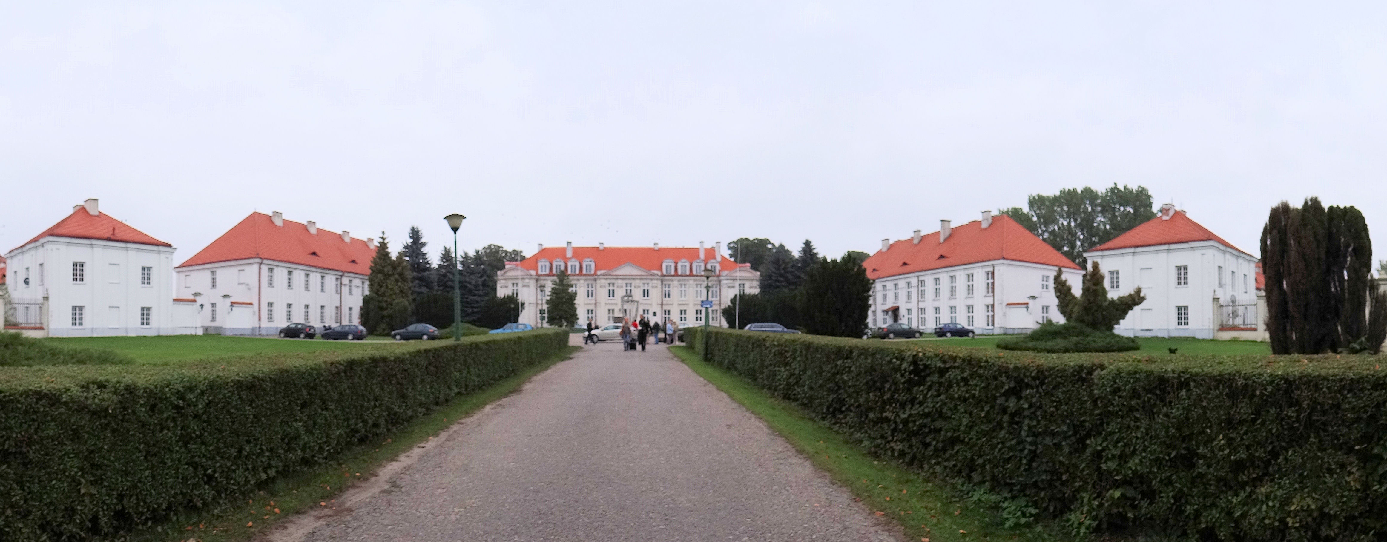 Bishops Palace in Wolbórz